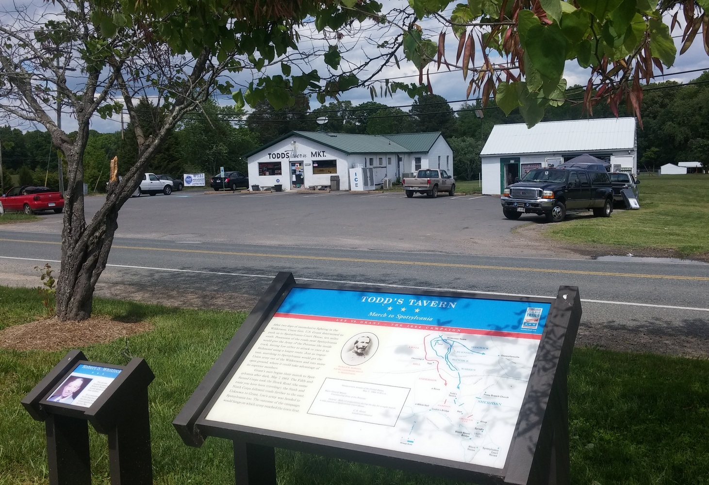 Brock Road, Todd Tavern market and Todd Tavern marker